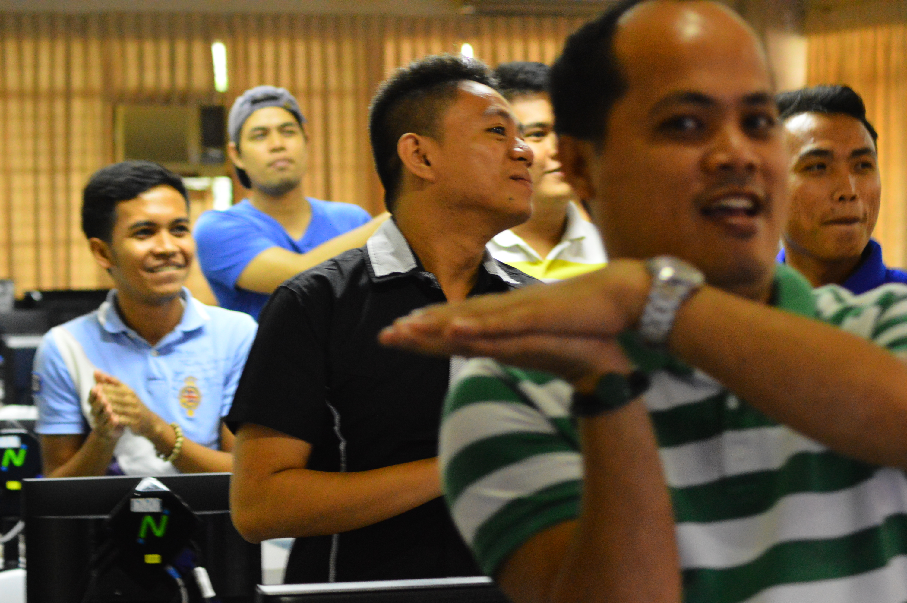 Participants at 10th Bikol Wikipedia Anniversary at Ateneo de Naga University in Naga City, Philippines